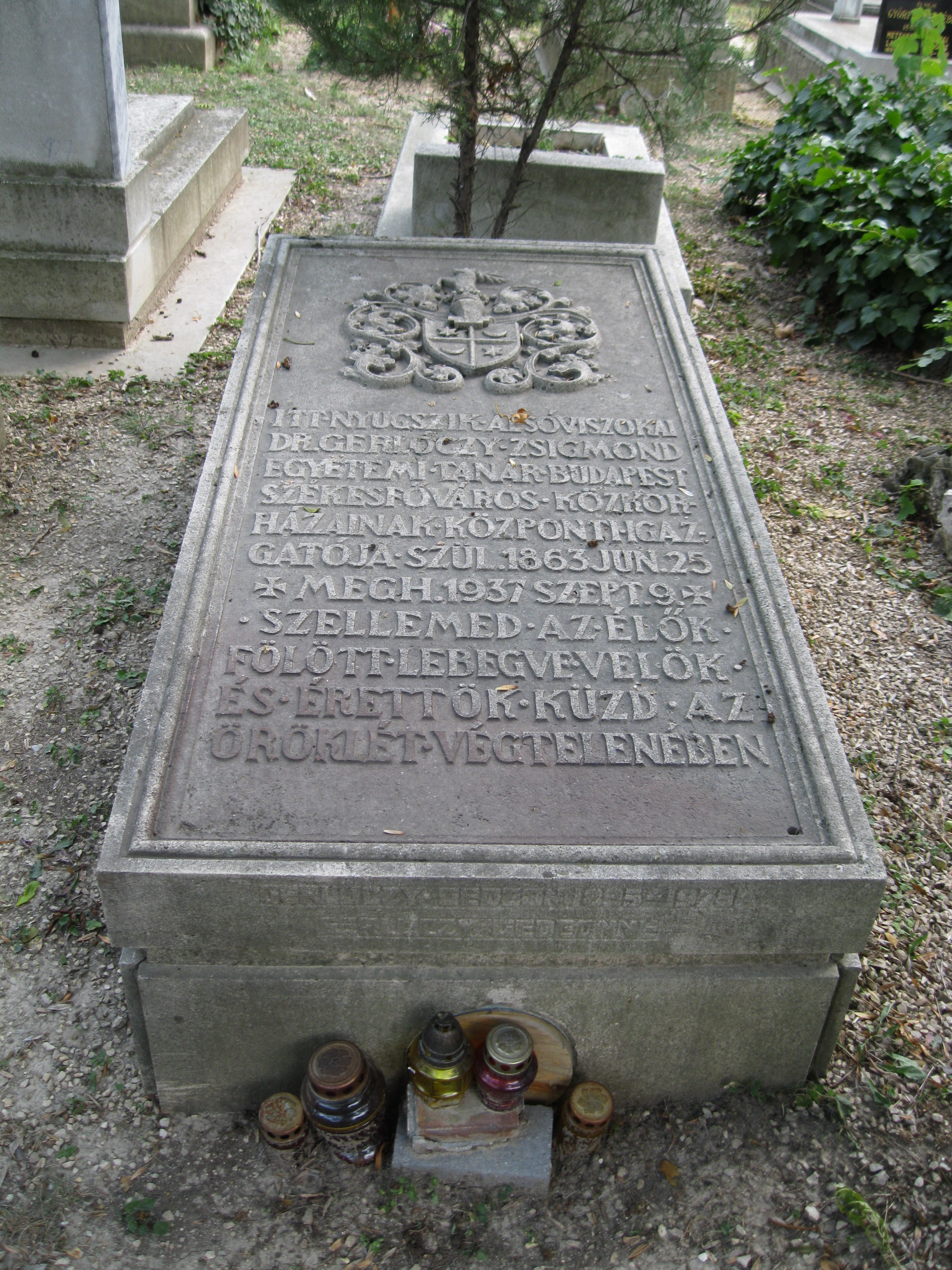 Tomb of Zsigmond Gerlóczy and Gedeon Gerlóczy in Farkasréti Cemetery [7/6-1-41]. Creator: Sándor Gabay.